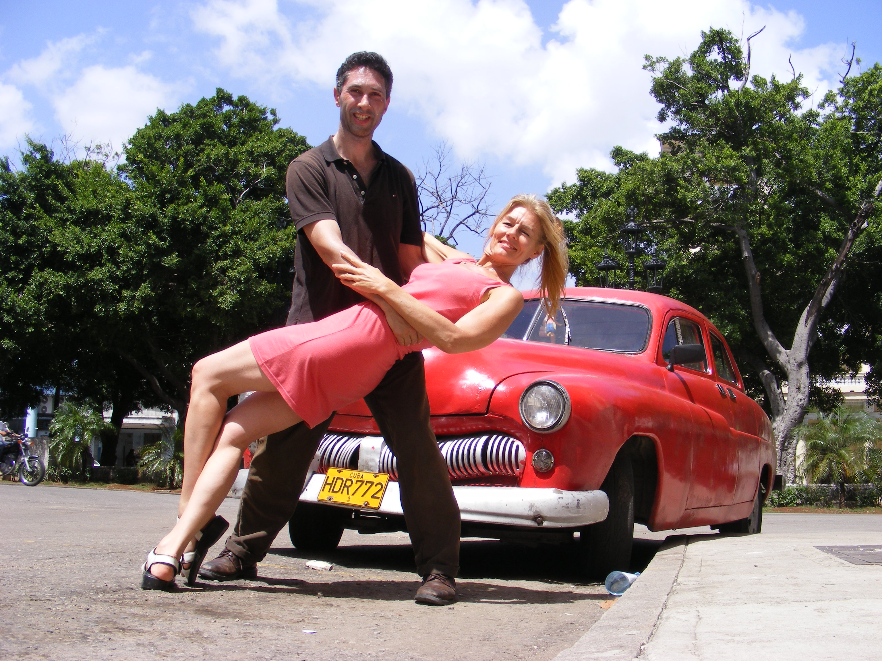 CUBA Havana - salsa Anthony and Steph